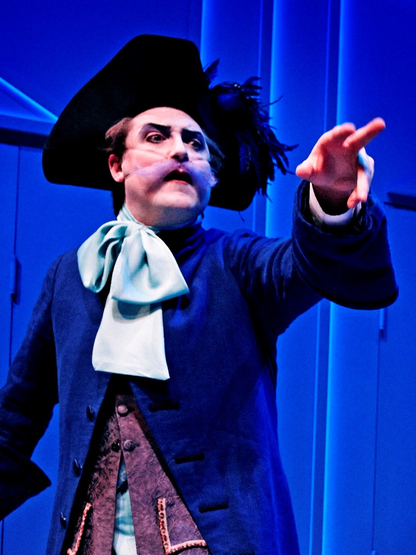 Jesper Riefensthal in the Copenhagen theater Folketeatret's production of the play "Den politiske kandestøber" by Ludvig Holberg.